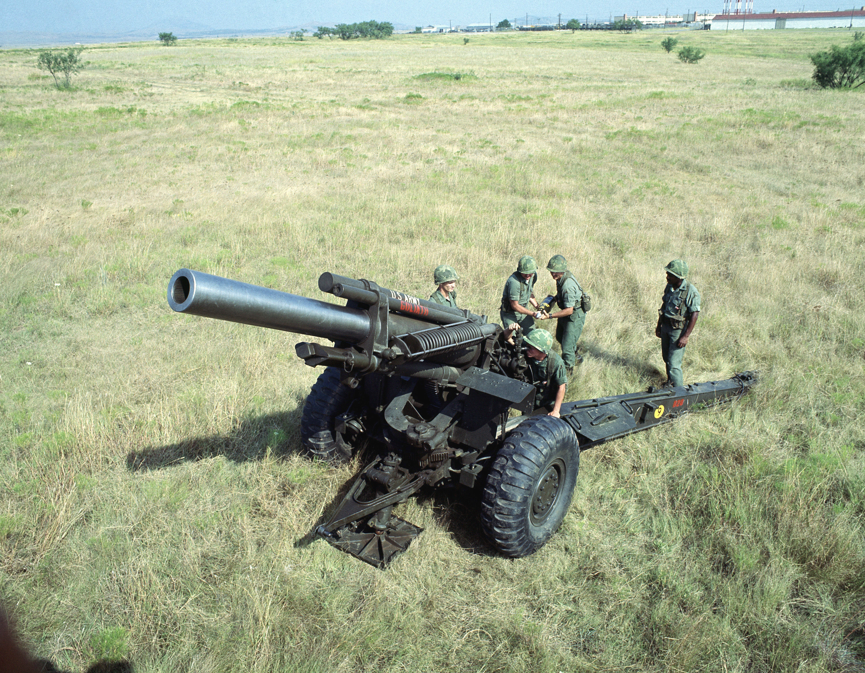 An M114 155 mm Howitzer in firing position.